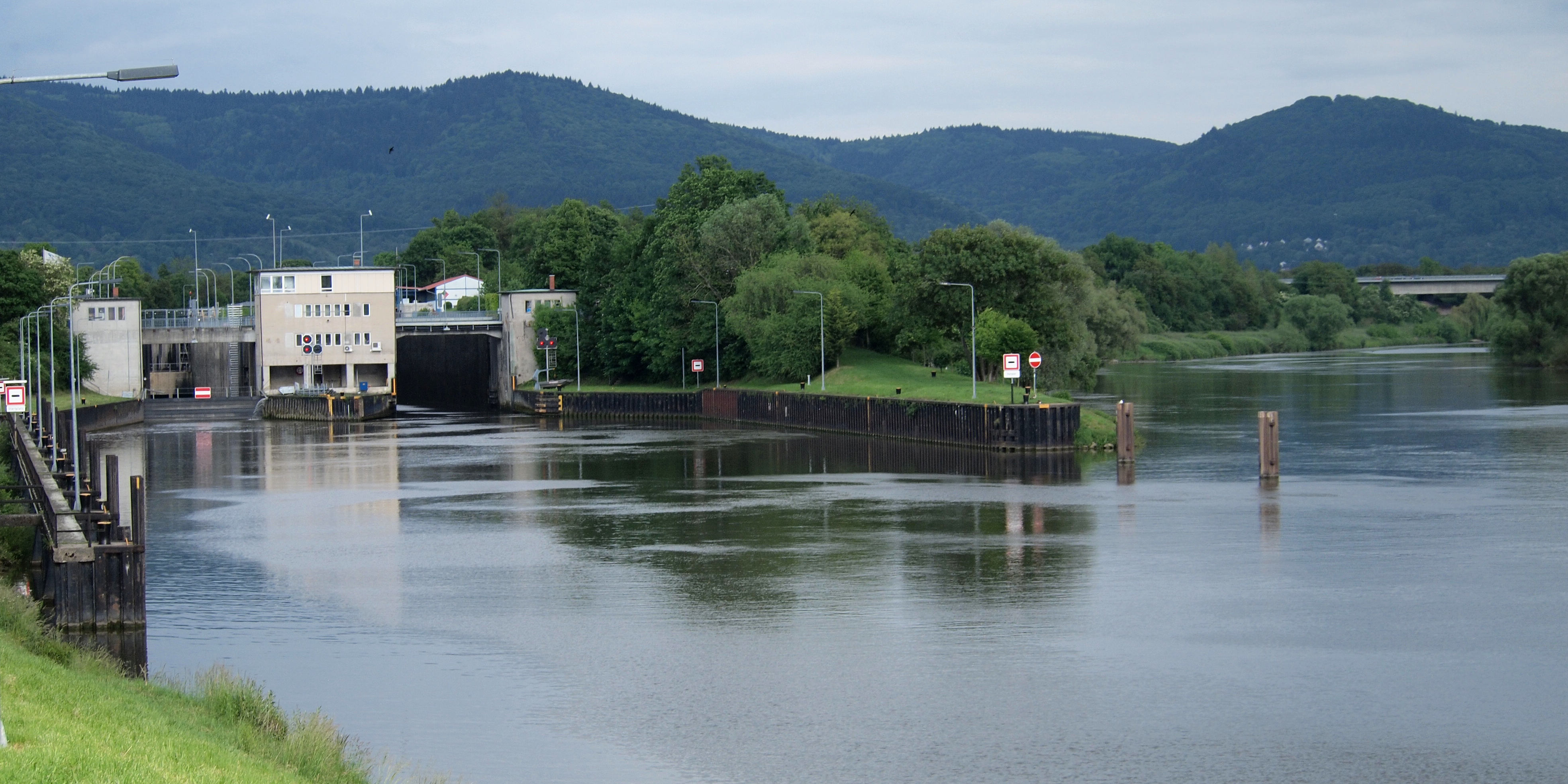 Schwabenheim lock, the end of the Wieblingen canal, parallel to the Neckar river. View of the junction from downstream.